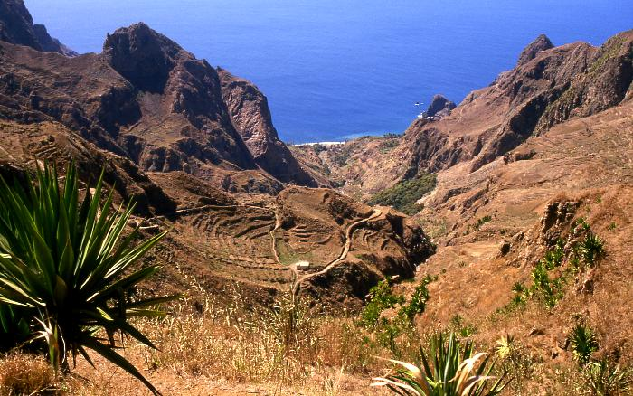 The valley of Faja de Agua on Brava island - Cape Verde